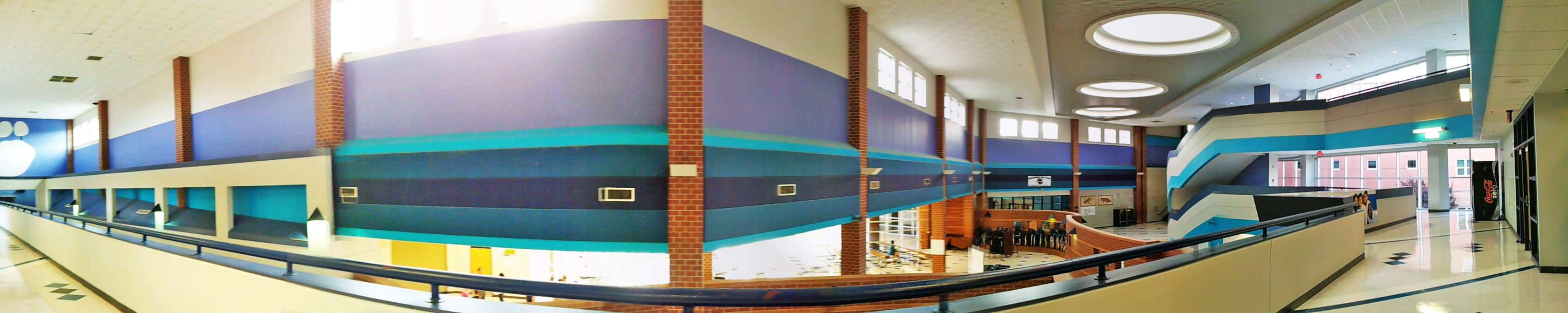 A panoramic photograph of the eastern portion of the "skywalk" found at Northwestern High School, taken on the 2nd floor. This shows about 60% of the total structure. The other portion is out of view.